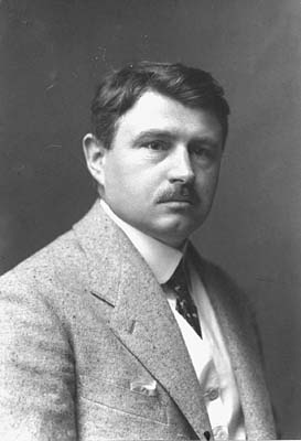 Alois Dryák (1872-1932), czech arcitect